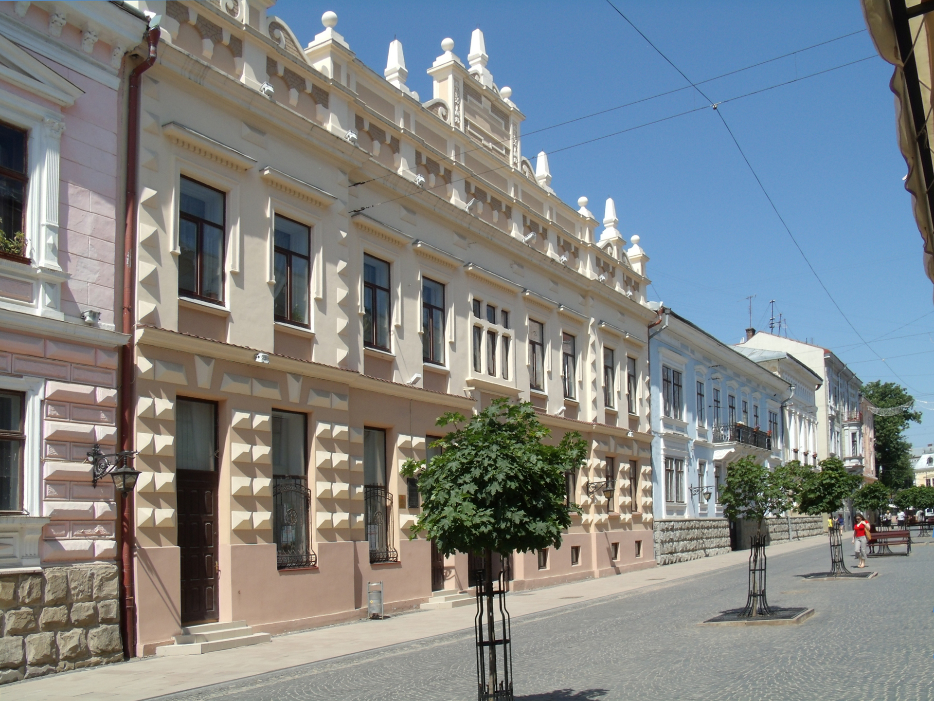 Chernivtsi, Kobylianska house 36